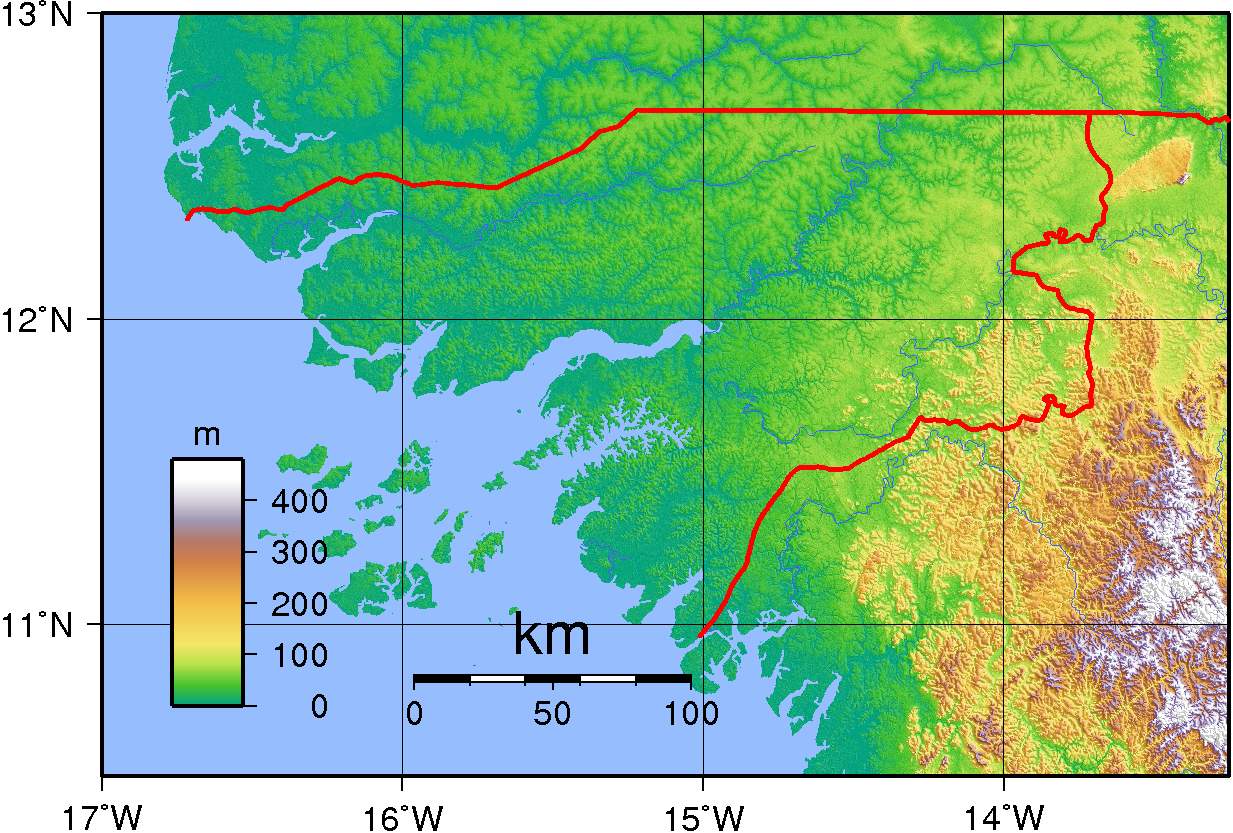 Topographic map of Guinea-Bissau. Created with GMT from SRTM data